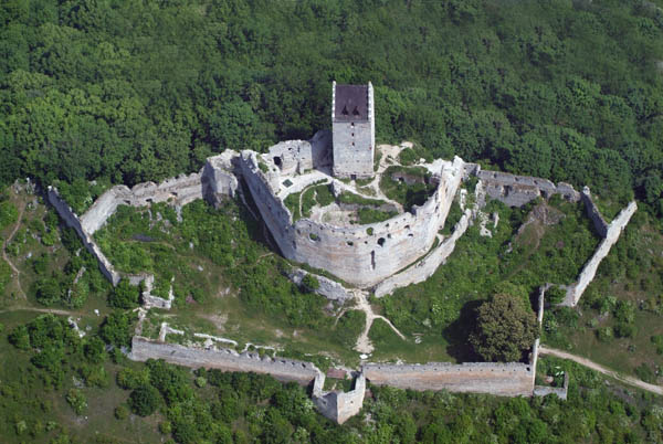 Topoľčany Castle, Podhradie, Slovakia, aerial photography